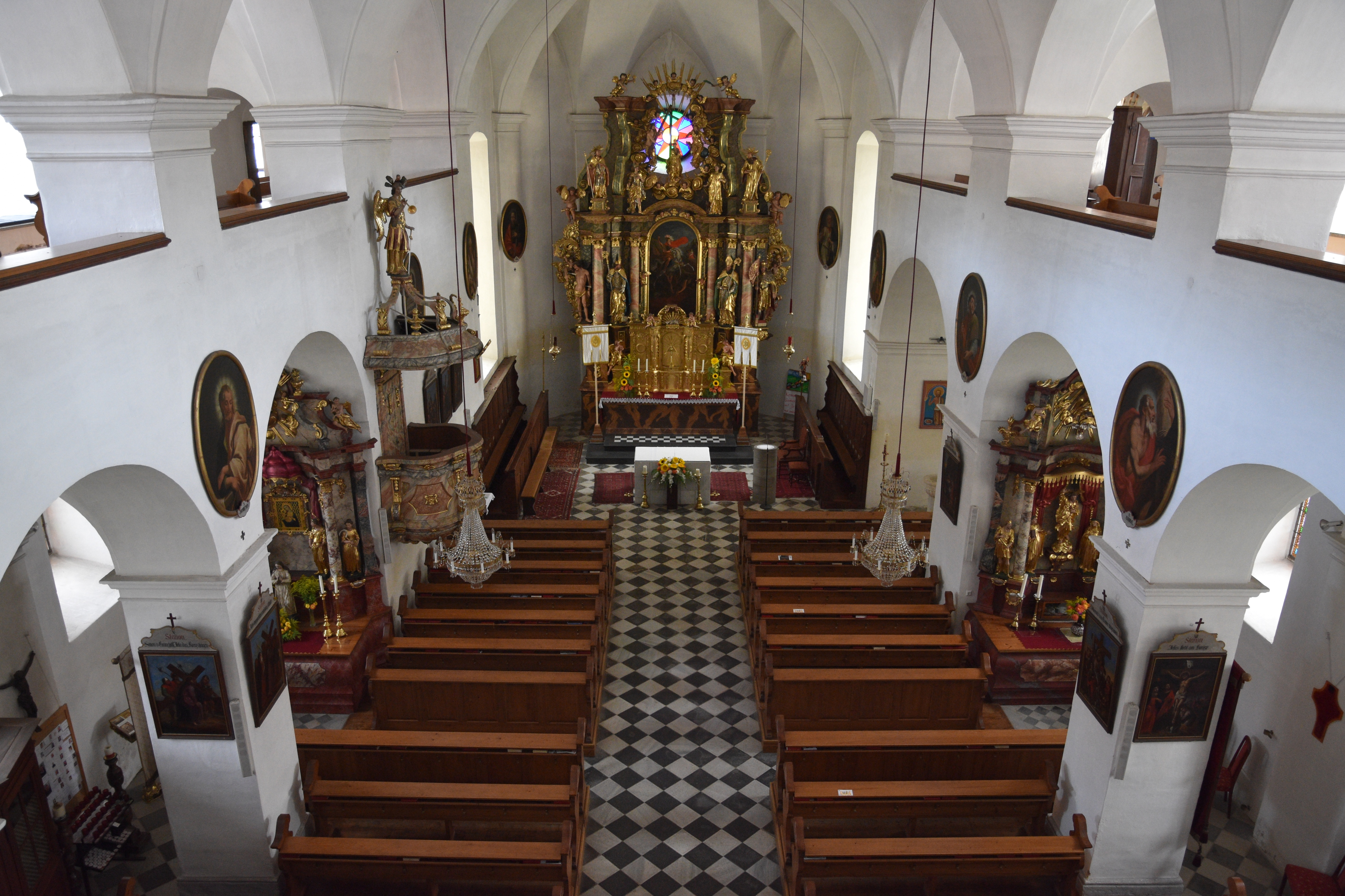 Church Kath. Pfarrkirche hl. Georg und ehem. Friedhof (Kainach) Interior